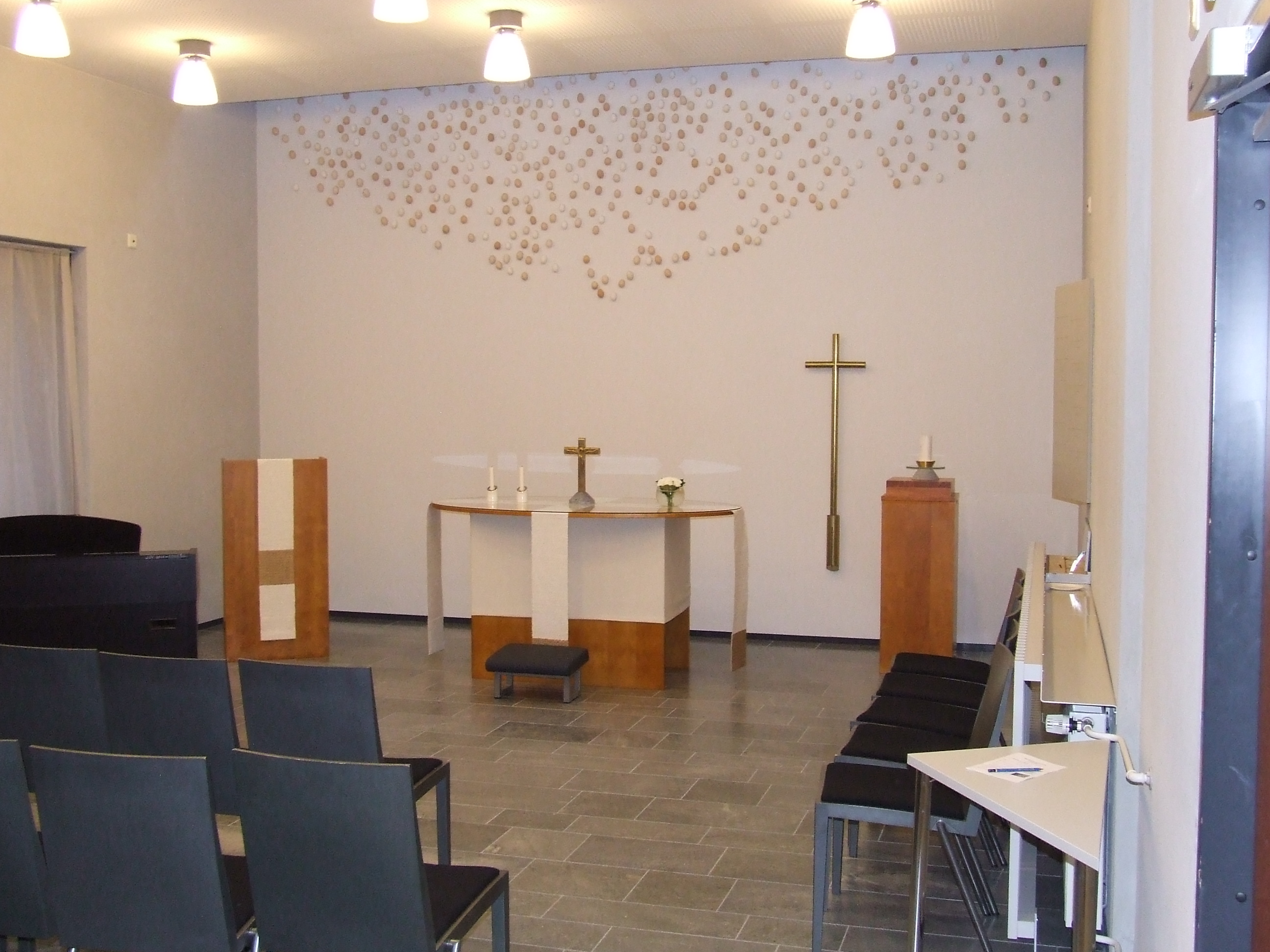 The Genesis Chapel at the School of Theology of the University of Eastern Finland, Joensuu Campus.